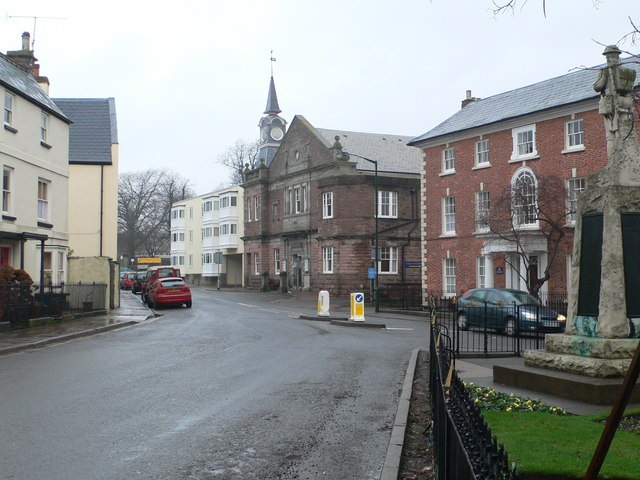 Whitecross Street, Monmouth Looking up the road from St James' Square. The war memorial is on the right, and beyond is St James' House (part of Monmouth School) and further on is the Library.